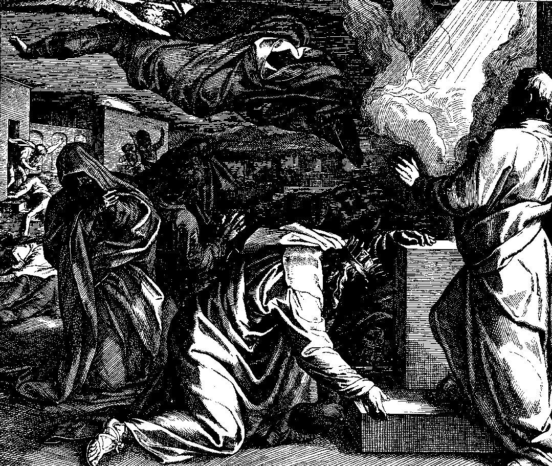 Woodcut for "Die Bibel in Bildern", 1860.